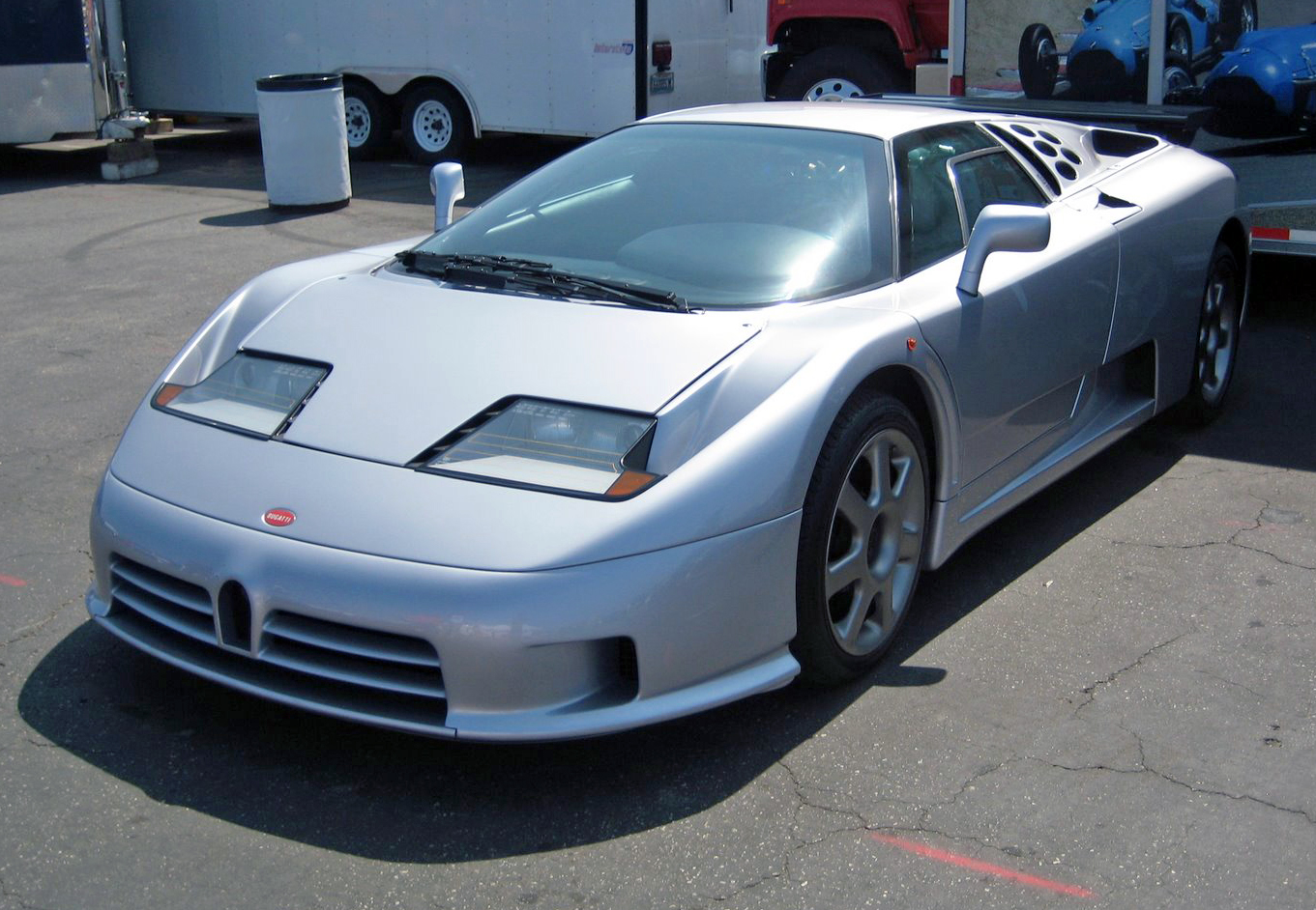 Bugatti EB110 SS at the Laguna Seca Historics, 2009.